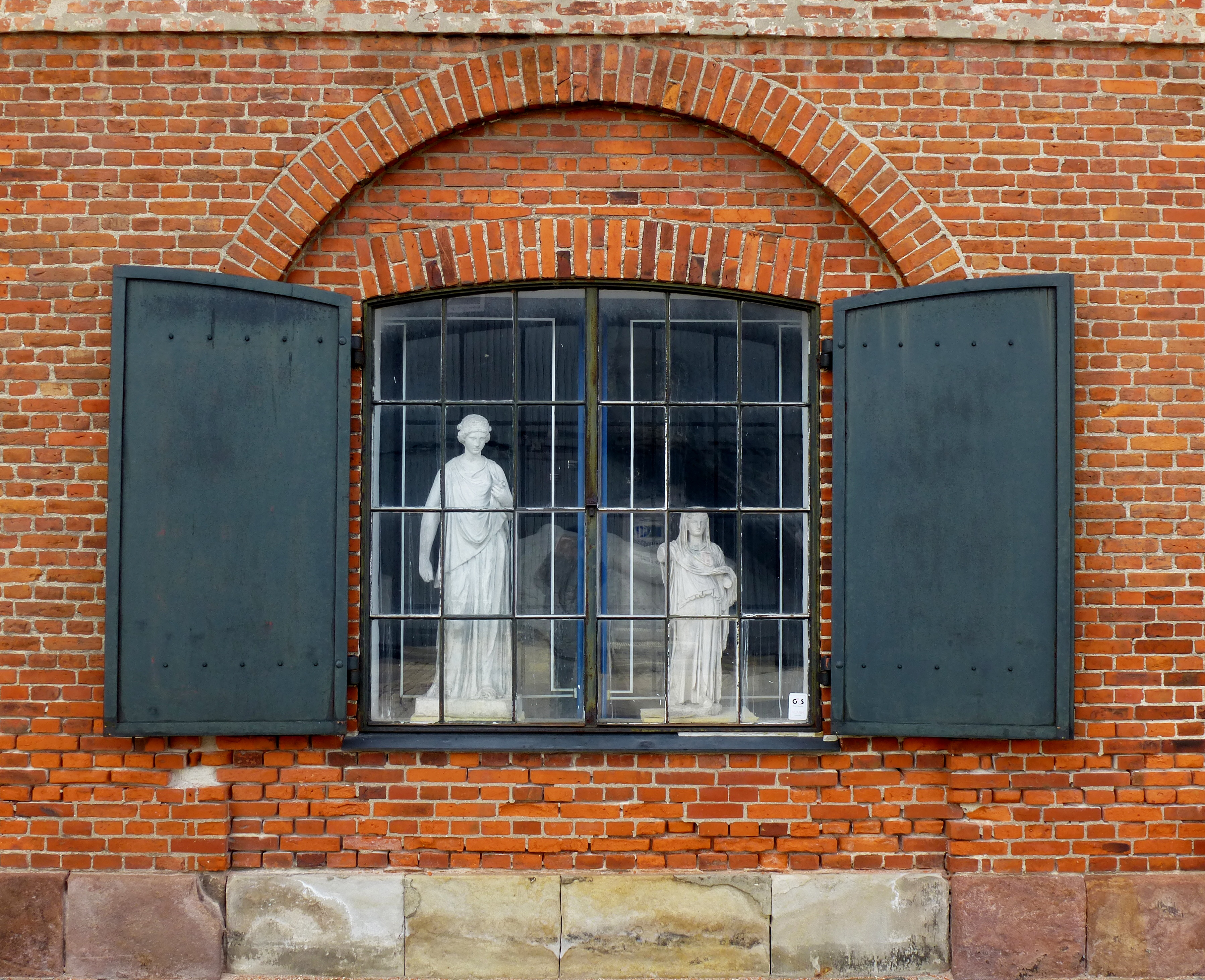 A window in Vestindisk Pakhus, home to the Royal Cast Collection, in Copenhagen, Denmark